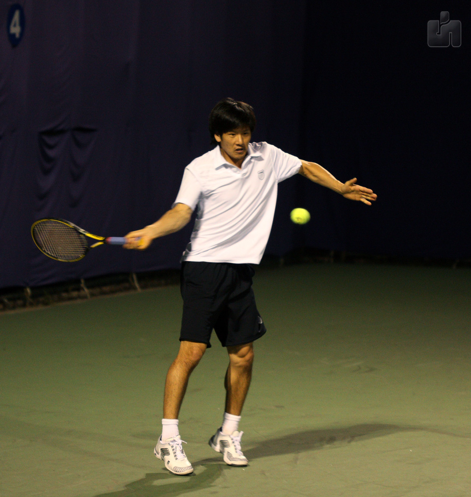 Kevin Kim playing a forehand during his first round match at the Chennai Open 2010.